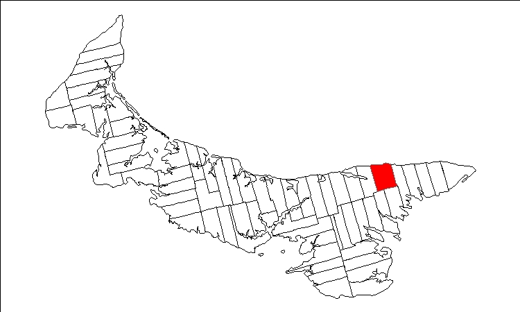 Public domain map of Prince Edward Island created by User:Plasma east with data courtesy of Geogratis, modified to show townships. Released under GFDL (self).